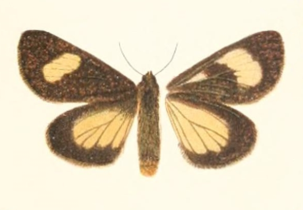 « Pycnodontis pulverosa » = Rhosus posticus